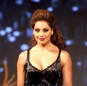 Bipasha Basu walk the ramp at the 'IIFA 2015 Fashion Extravaganza